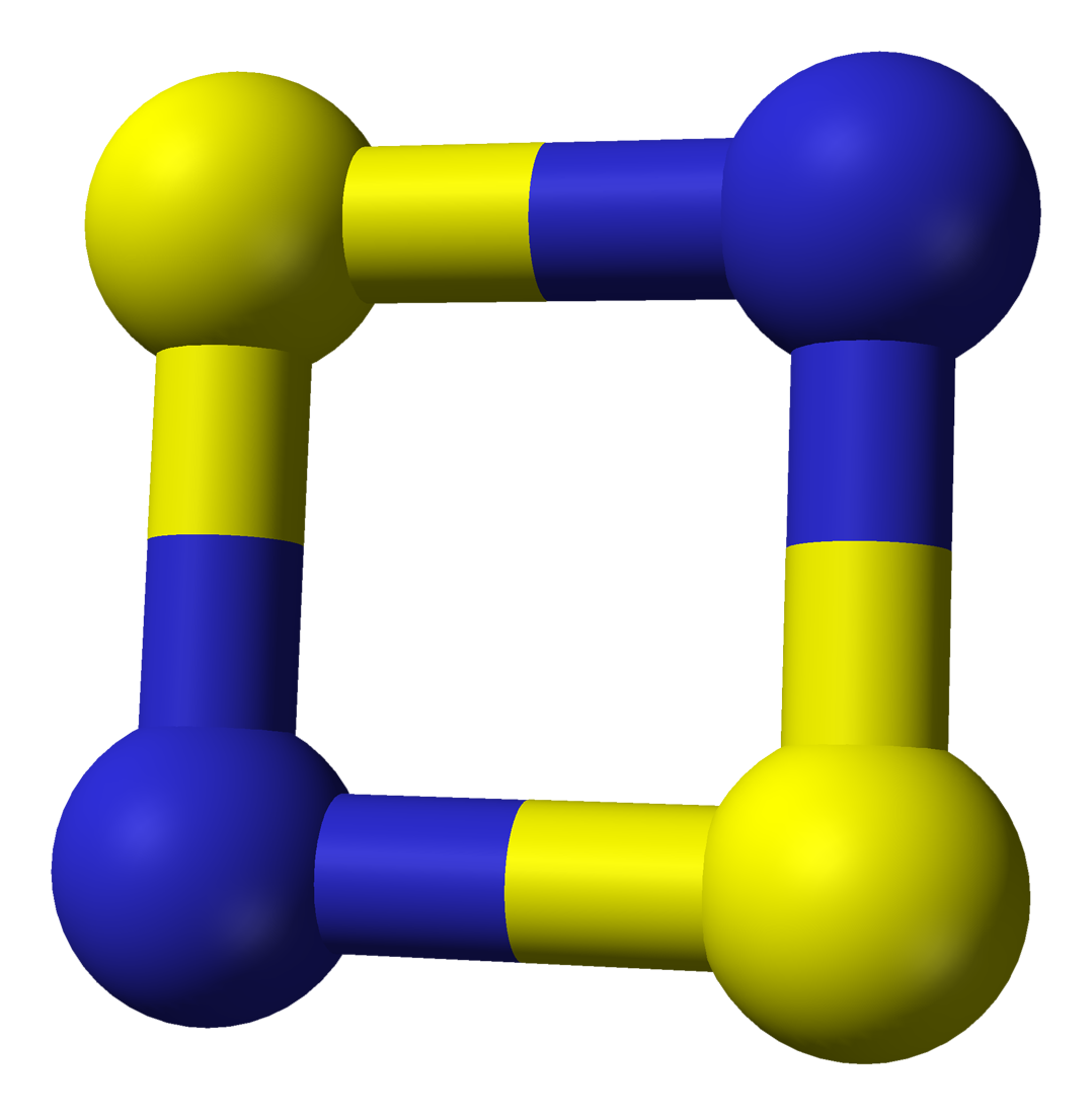 Ball-and-stick model of the disulfur dinitride molecule, S2N2. Structural information from J. Gerratt, S. J. McNicholas, P. B. Karadakov, M. Sironi, M. Raimondi, D. L. Cooper (June 1996). "The Extraordinary Electronic Structure of N2S2". J. Am. Chem. Soc. 118 (27): 6472-6476. Image generated in Accelrys DS Visualizer.